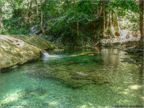 Las Escobas